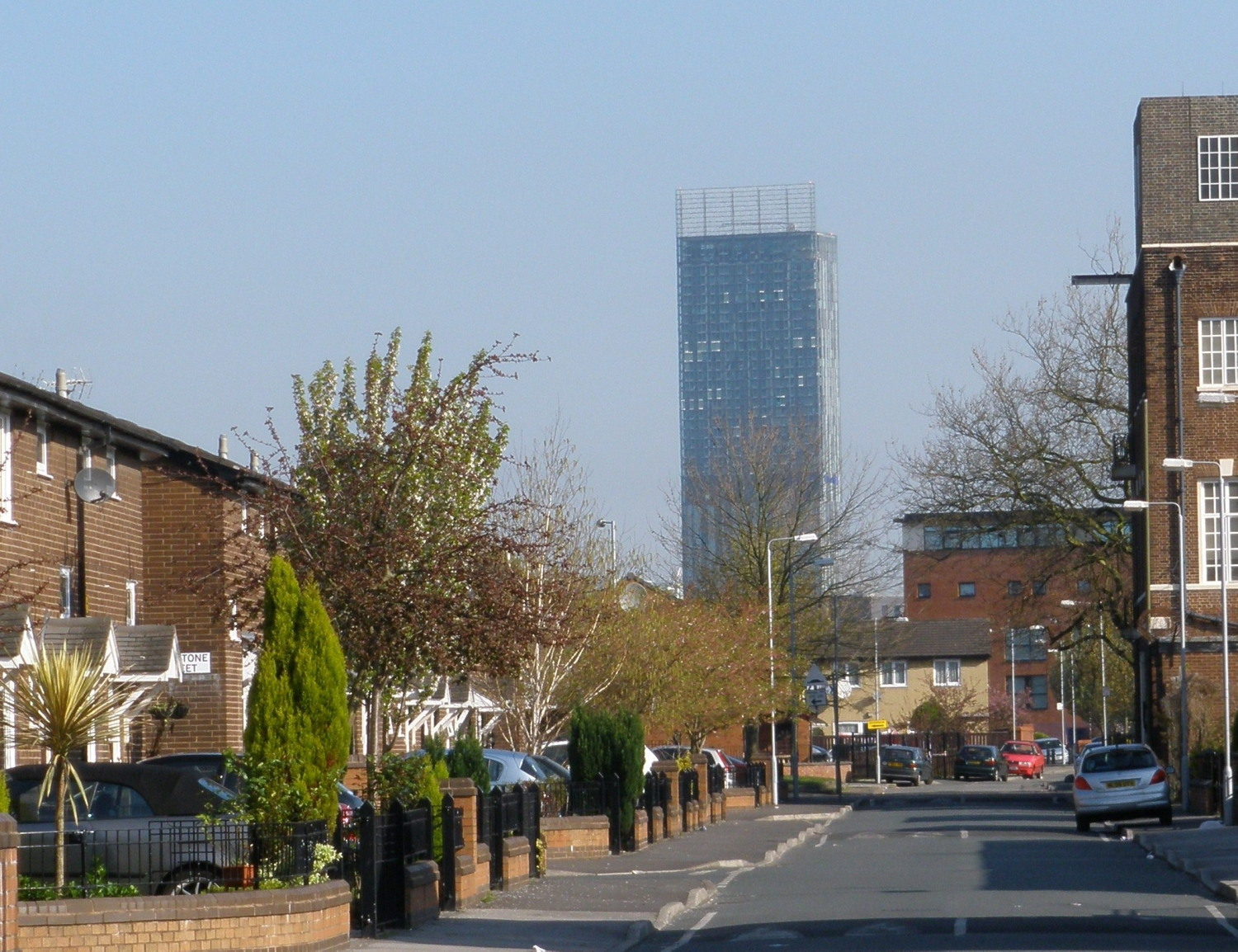 Brentwood Street on Alexandra Park Estate in Moss Side, Manchester, UK, with city centre Beetham Tower in background.